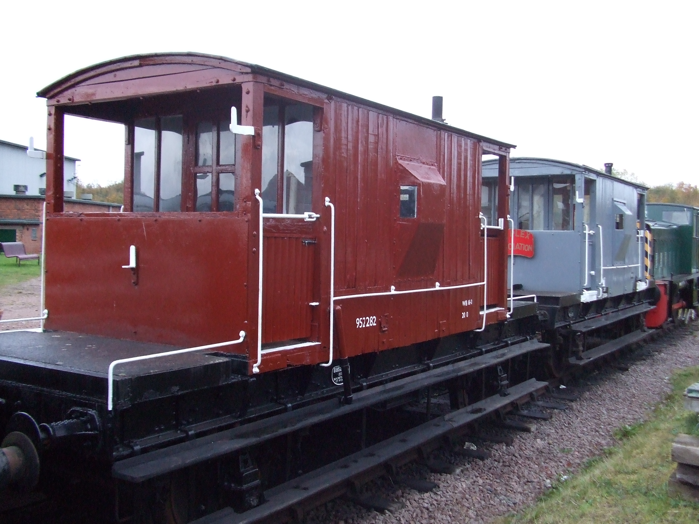 952282 and 287664 in Ruddington station